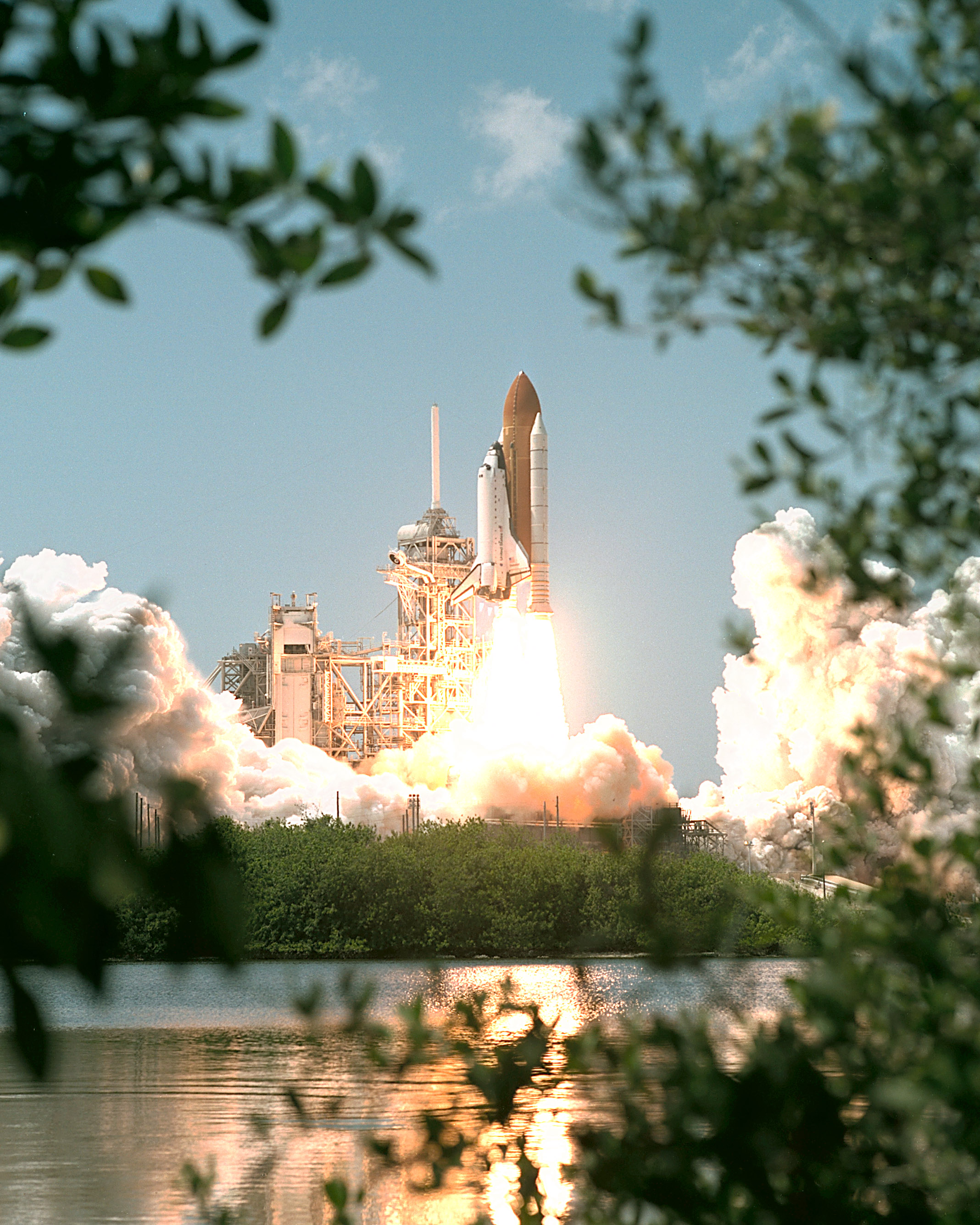 A perfect liftoff of Space Shuttle Endeavour on mission STS-100.